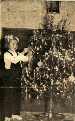 Girl from Elementary School Krste Misirkov Kumanovo is decorating a Christmas tree.